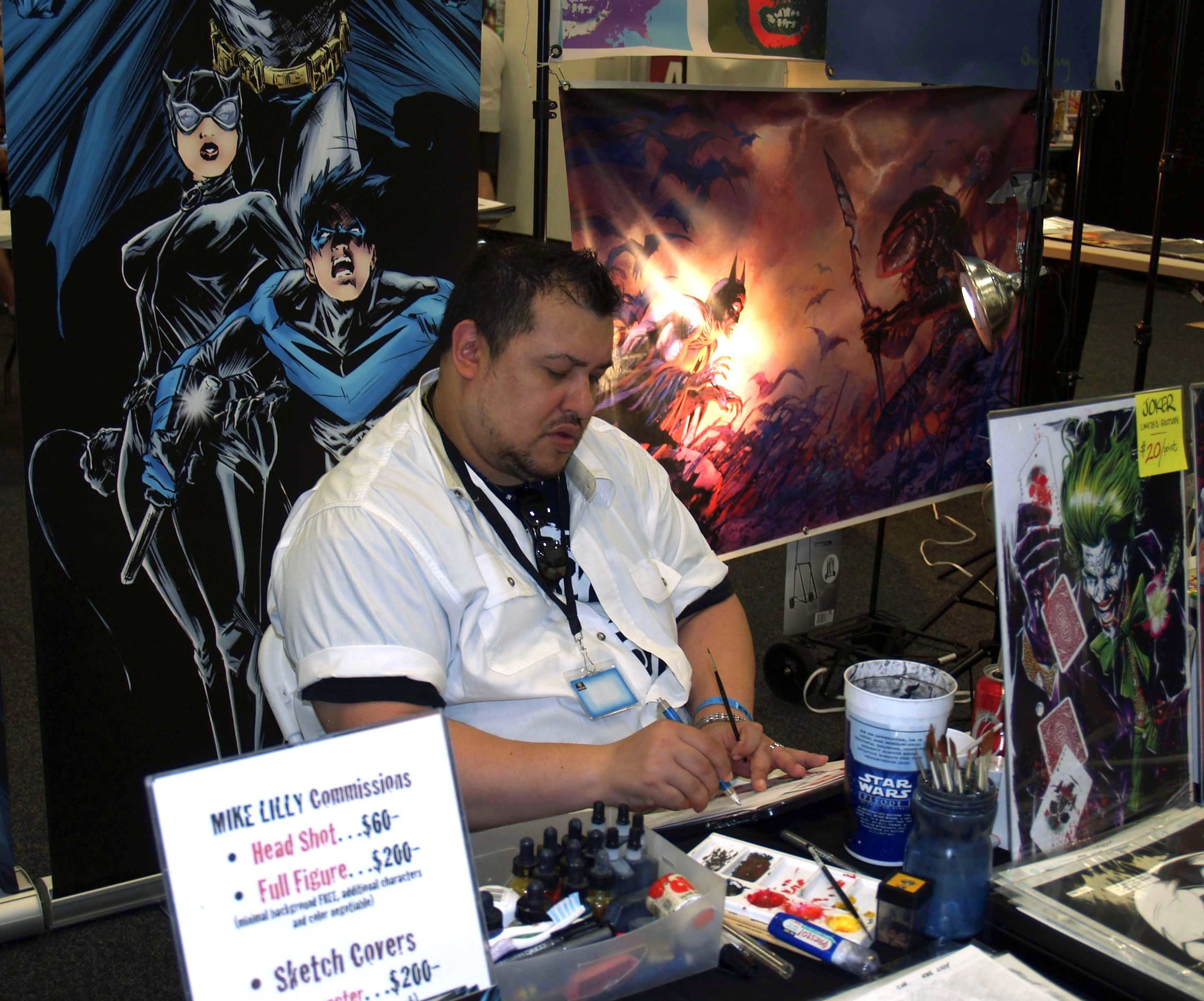 Comics artist Mike Lilly sketching at the 2013 Wizard World New York Experience Comic Con, at Pier 36 in Manhatan, June 29, 2013. This photo was created by Luigi Novi. It is not in the public domain, and use of this file outside of the licensing terms is a copyright violation.